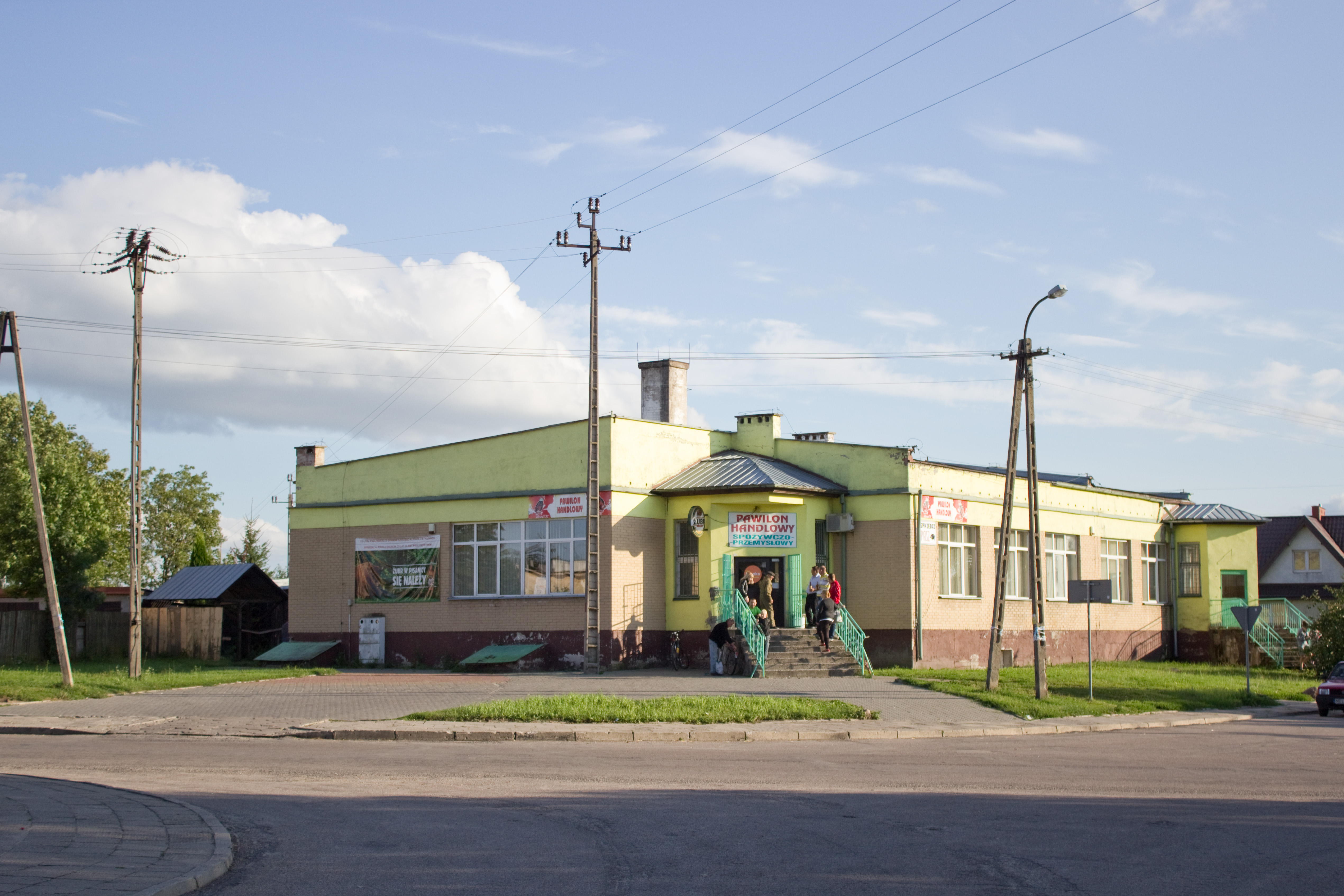 Shop, Pisanica, gmina Kalinowo, powiat ełcki, Warmian-Masurian Voivodeship